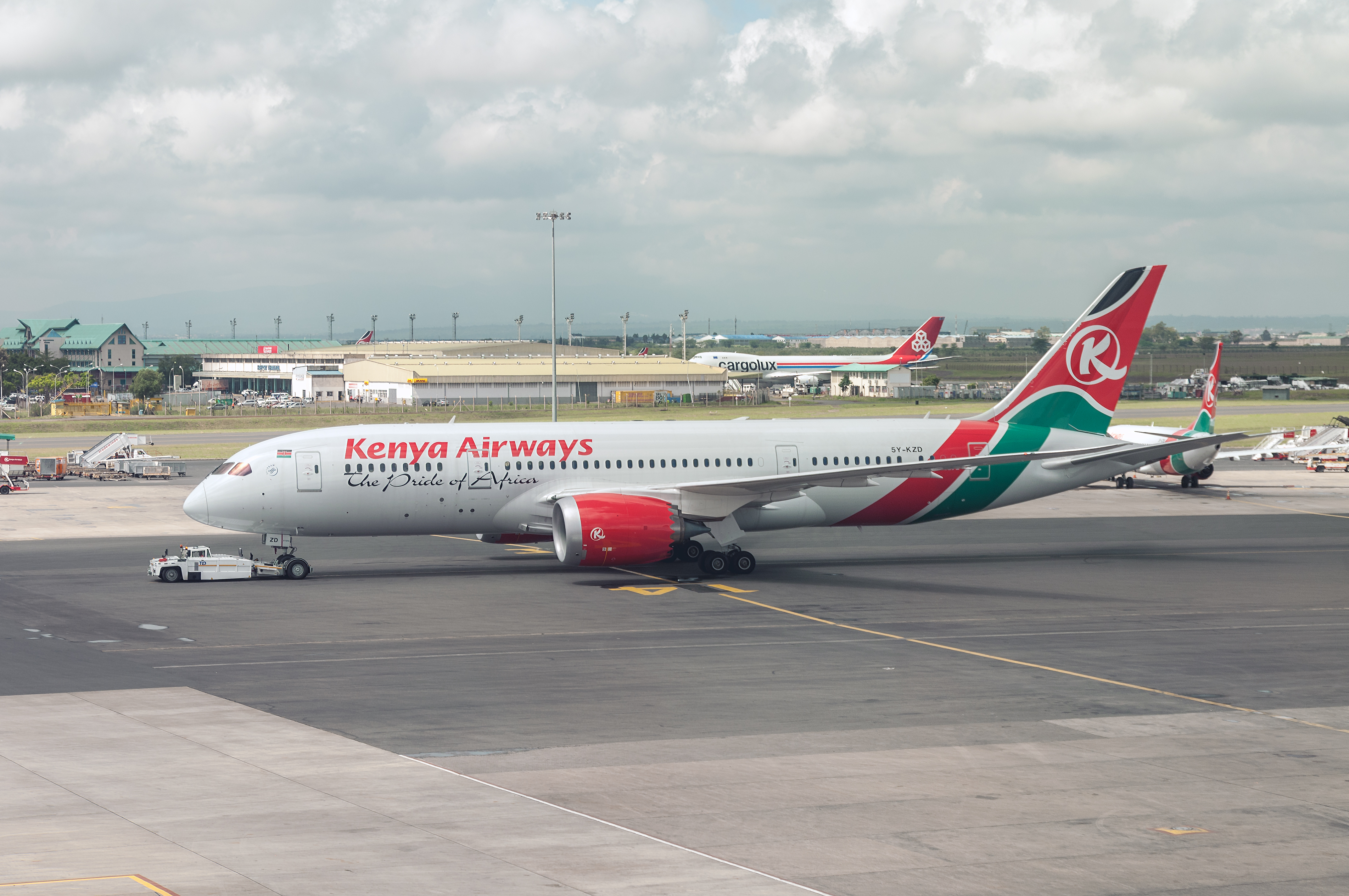 Kenya, one of Kenya airways' new Dreamliner at NBO airport